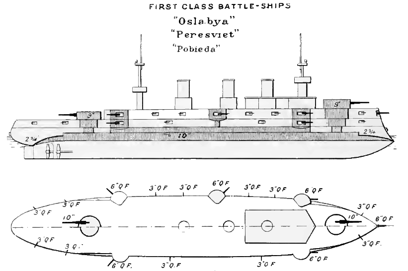 Simplified sketch of the Russian battleships Peresvet class.